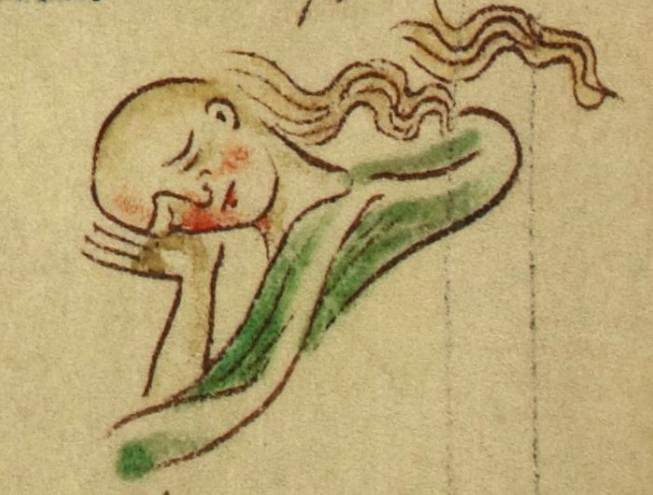 Death of Isabela Marshal